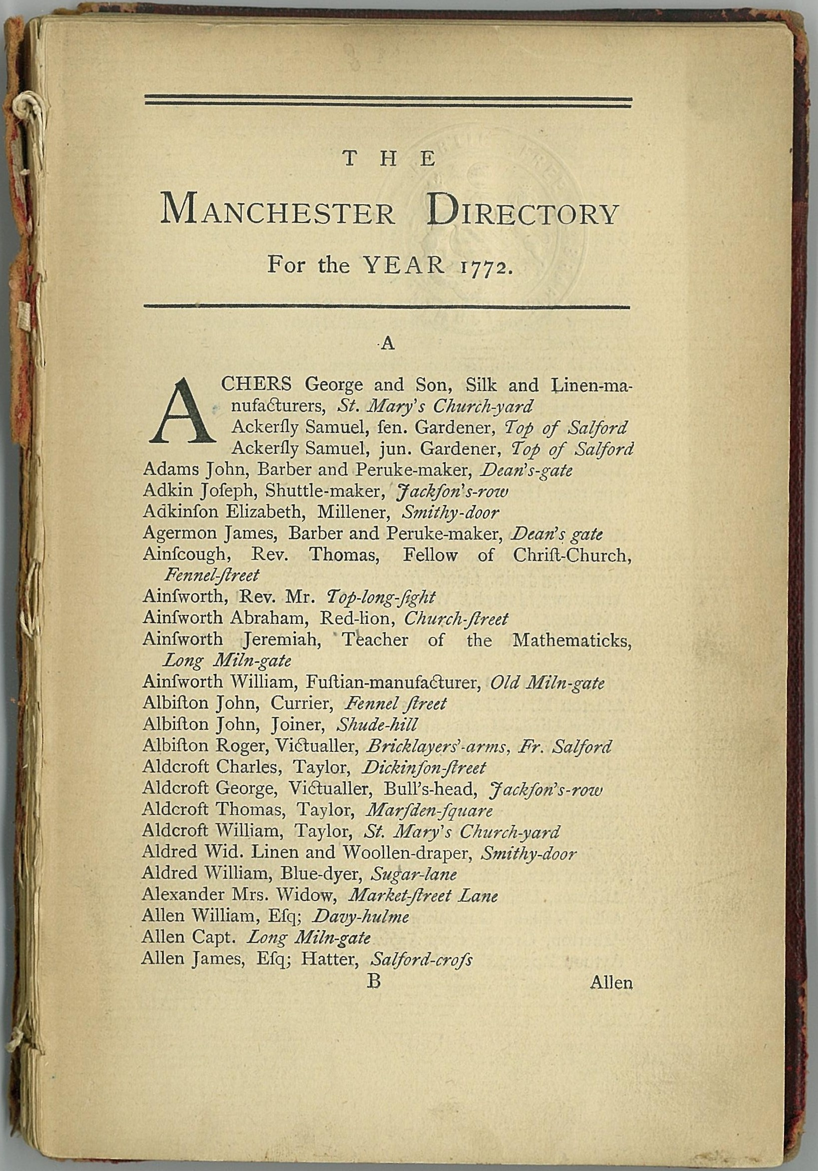 First page of the Manchester Street Directory, 1772